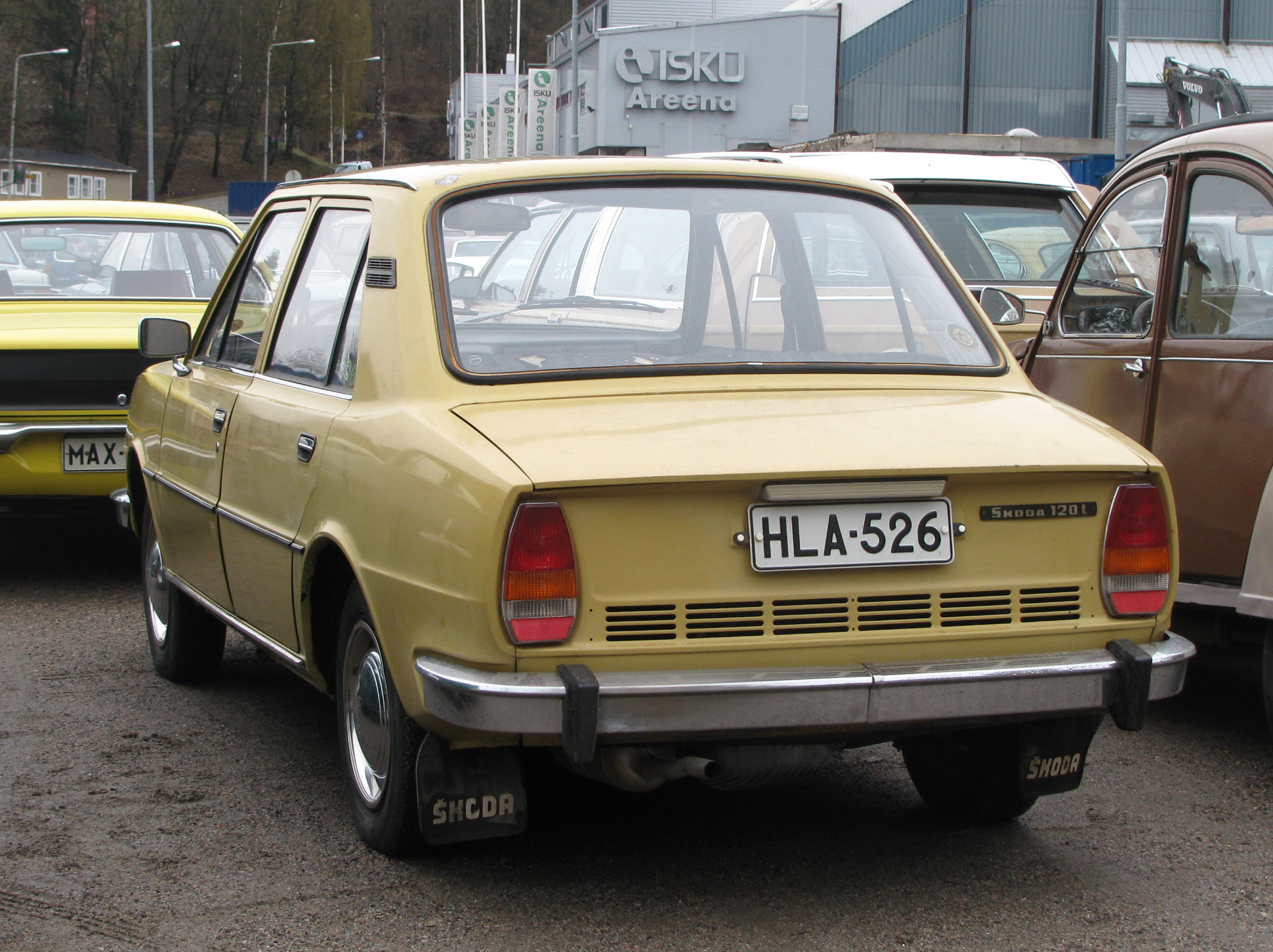 Škoda 120L, Classic Motor Show parking lot, Lahti, Finland